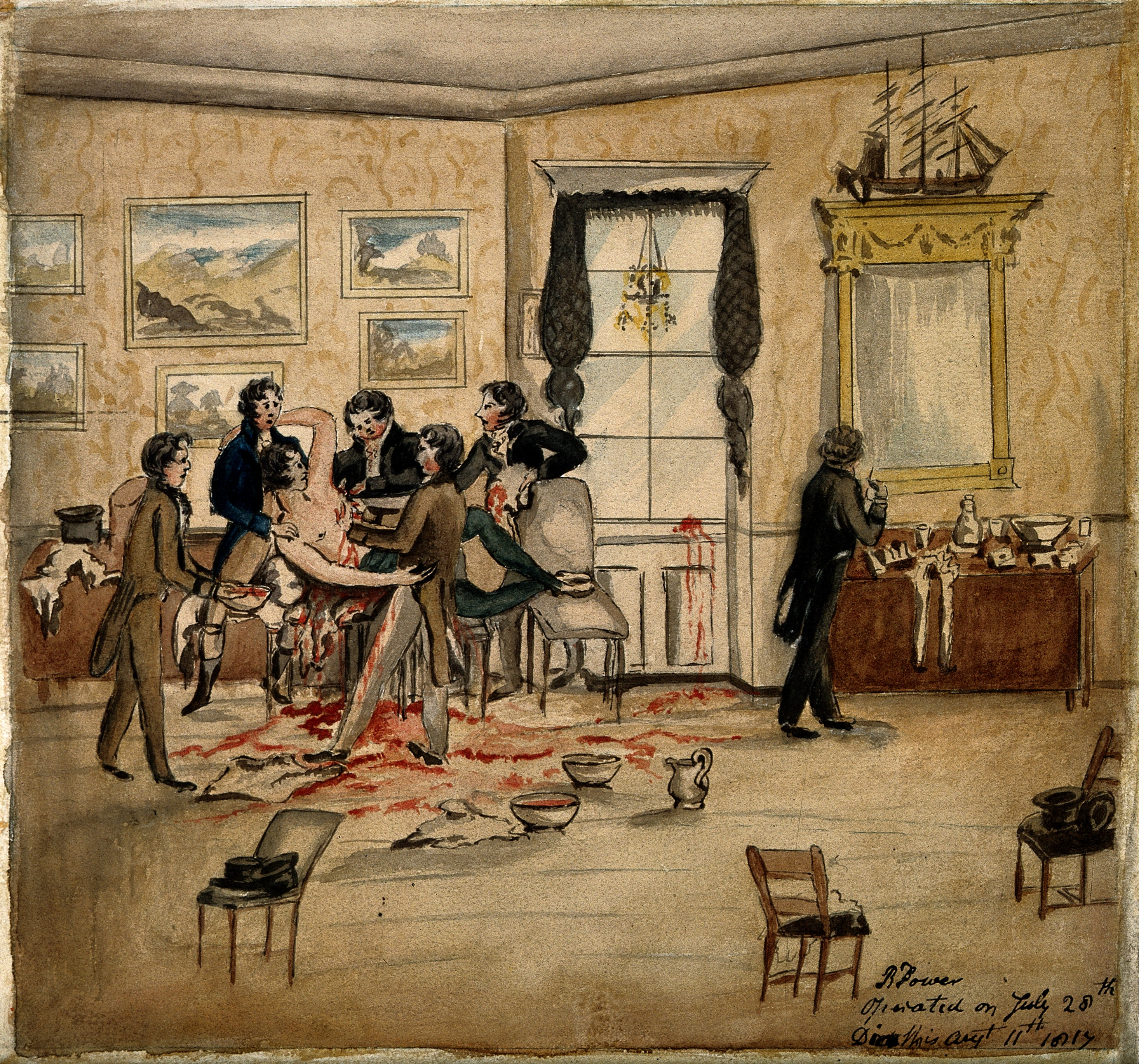 A surgical operation to remove a malignant tumour from a man's left breast and armpit in a Dublin drawing room, 1817. Watercolour, 1817. Iconographic Collections Keywords: Blood; SURGERY; Robert F. Power; Costume; Furniture